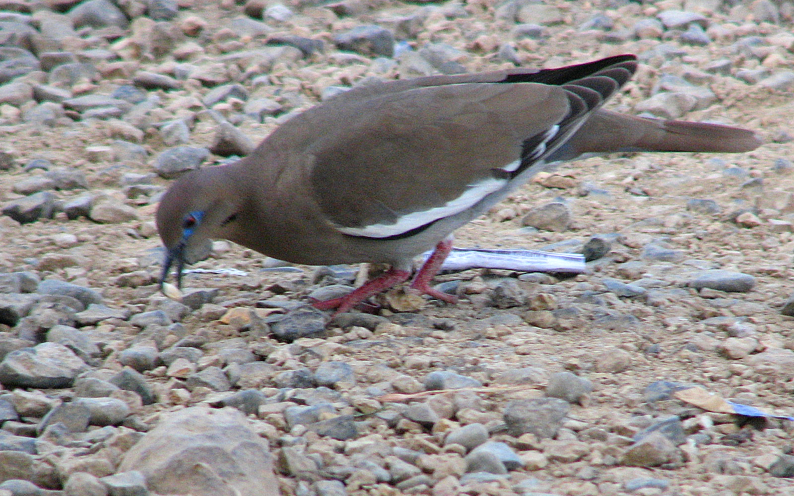 White-winged Dove (Zenaida asiatica), San Jose, Costa Rica